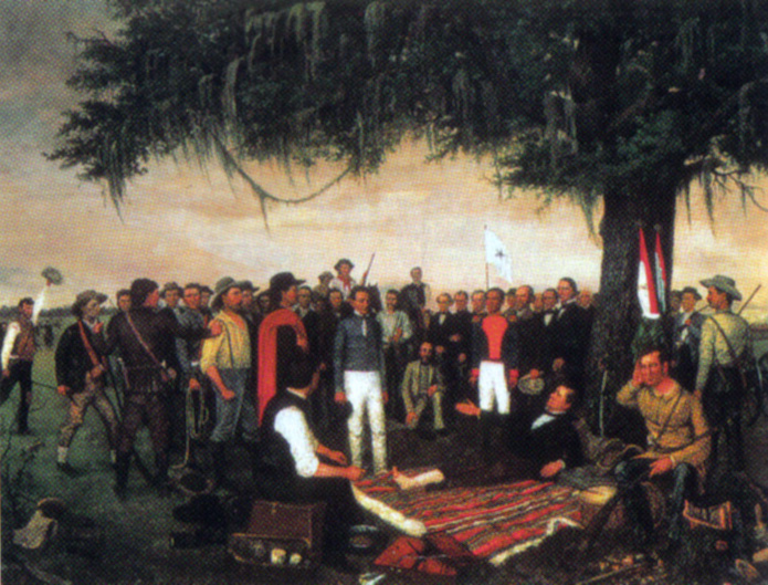 “Surrender of Santa Anna” by William Huddle (1847–92), 1886 The painting "Surrender of Santa Anna" by William Huddle, shows the Mexican strong-man surrendering to a wounded Sam Houston.